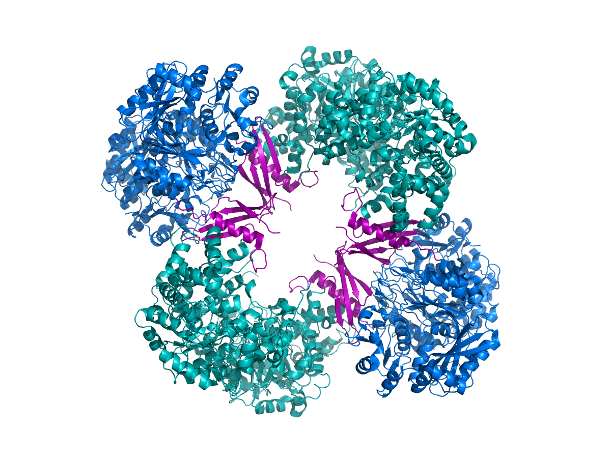 a picture of the enzyme pyruvate carboxylate from S. aureus